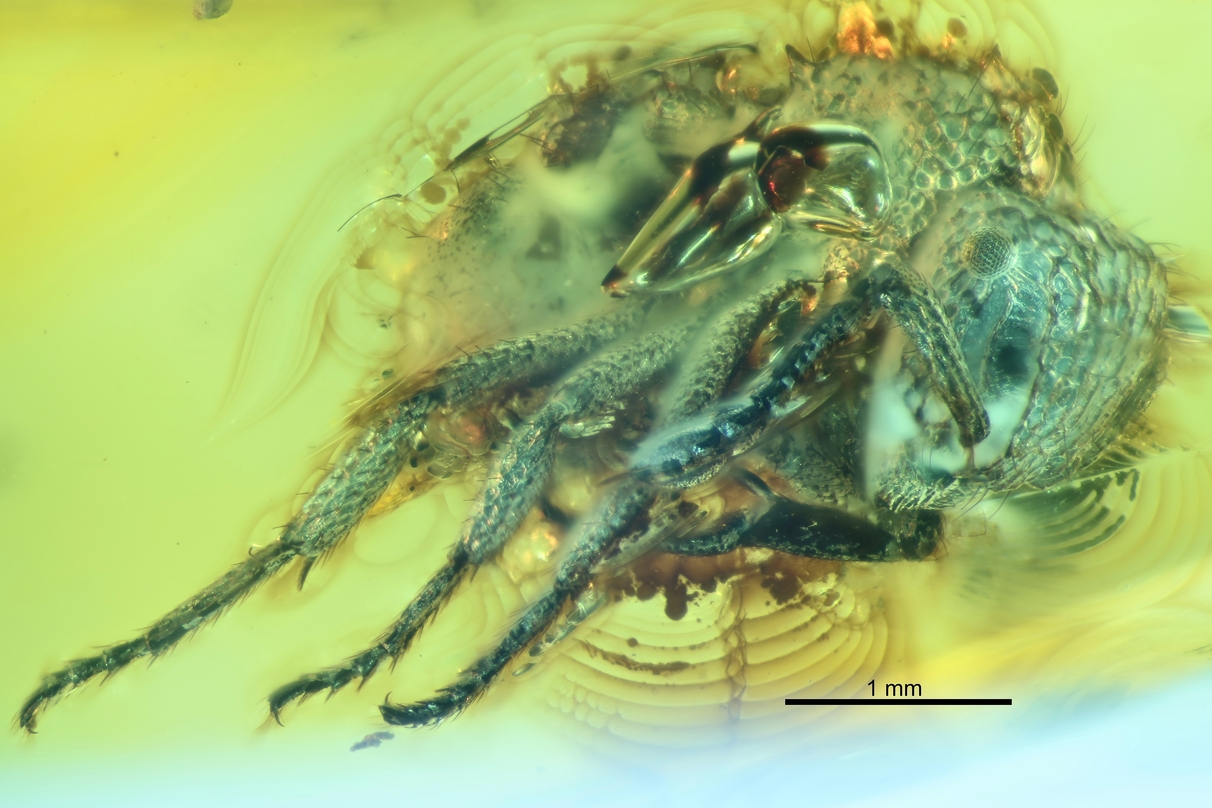 Profile view of Agroecomyrmex duisburgi. Specimen BMNHP18831